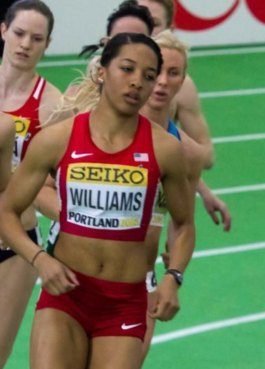 Kendell Williams during 2016 IAAF World Indoor Championships in Portland